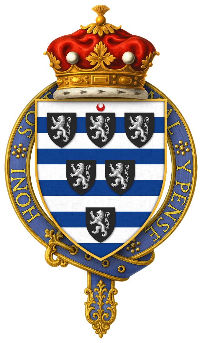 Shield of arms of James Cecil, 1st Marquess of Salisbury, KG, PCArms: Barry of ten argent and azure over all six escutcheons sable three, two, and one, each charged with a lion rampant of the first.